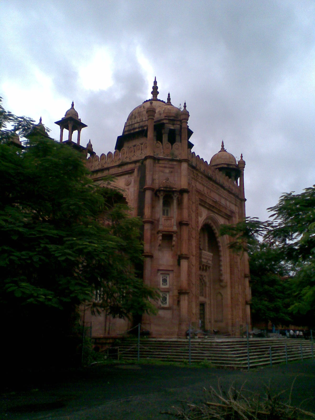 Government Museum and museum premises, Chennai